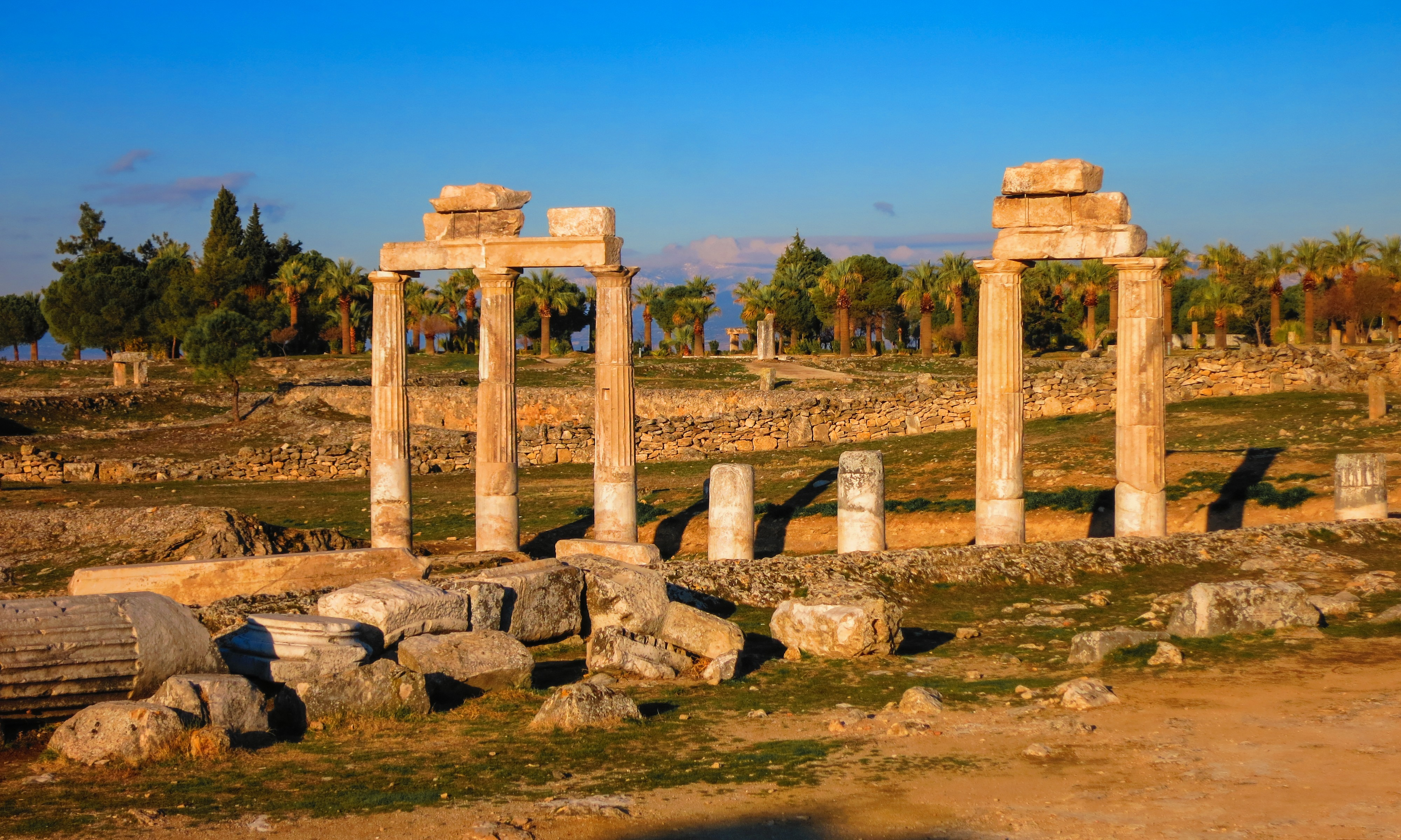 A view over southern part of ruins of ancient city Hierapolis to west. (Turkey)